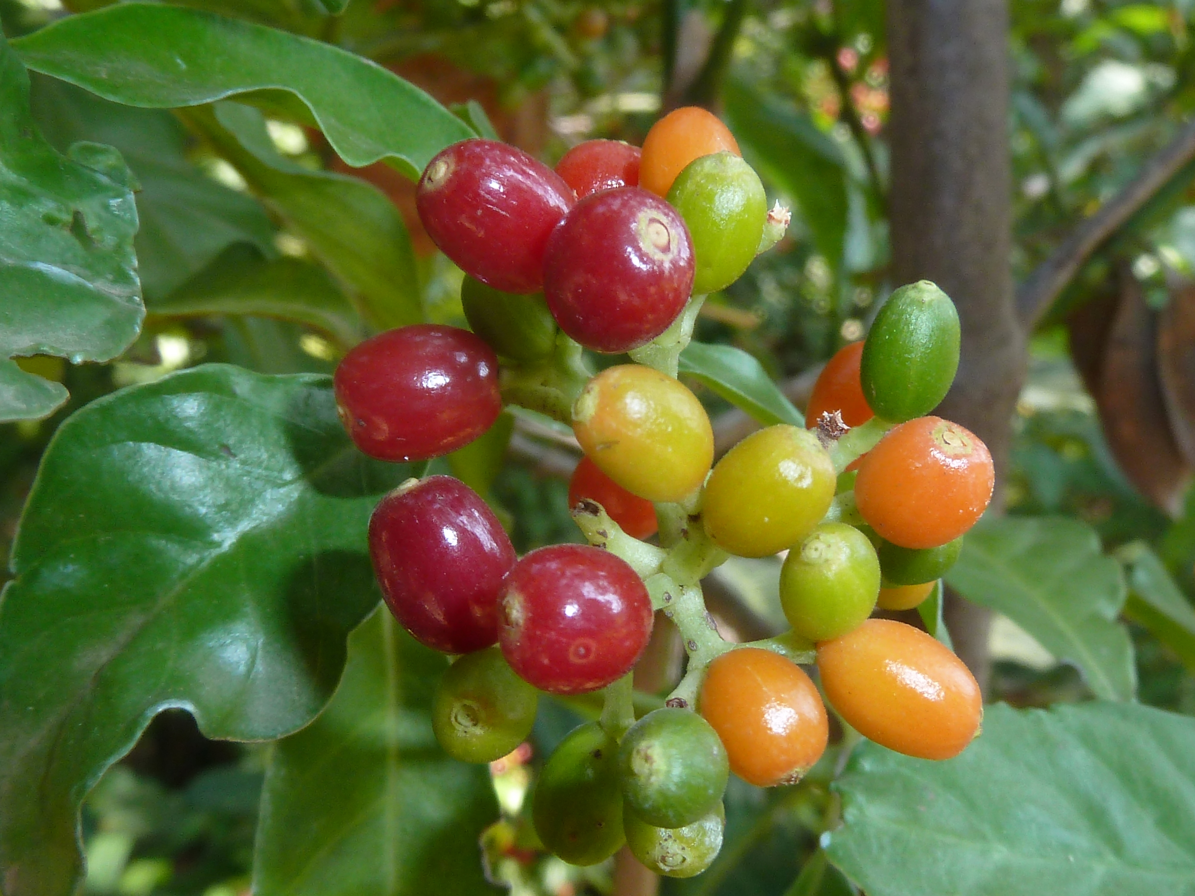 Green and ripe fruit of a Bird-berry in the Manie van der Schijff Botanical Garden